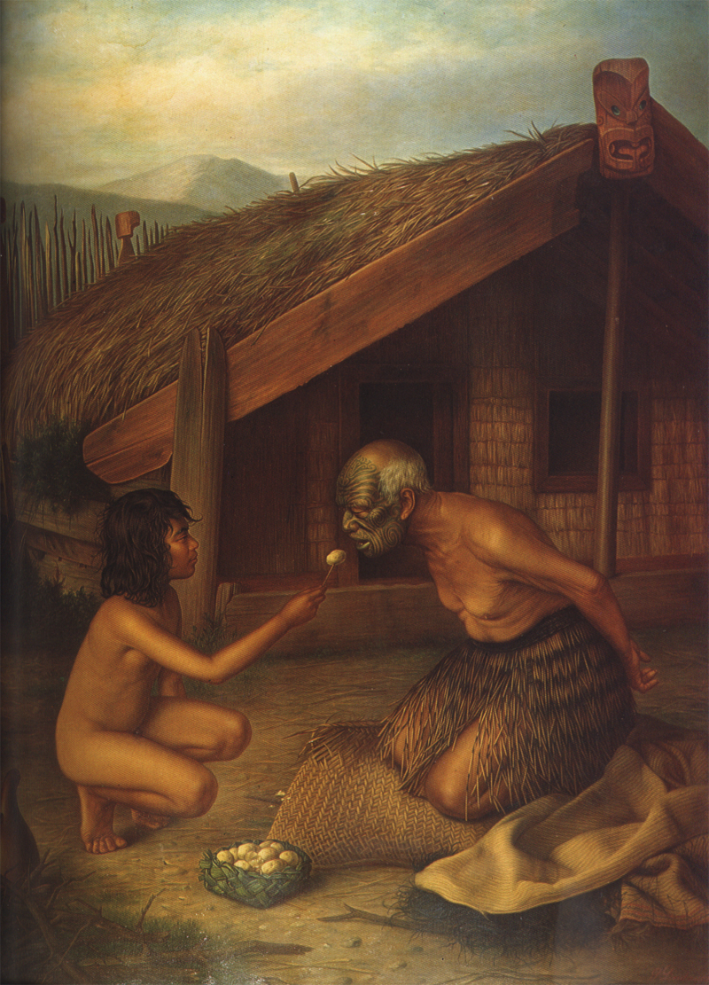 The remains of the sacred dead and all connected therewith were highly tapu and anyone who had been engaged in handling the dead or bones of the dead would be extremely tapu (sacred/forbidden) and would not dare to touch food with the hands. Consequently such persons like the Tohunga shown had to be fed in the manner shown in this picture.